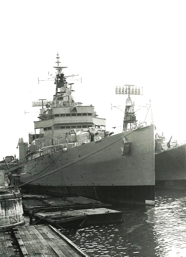 HMS Tiger (launched 1945), in Portsmouth Harbour, Portsmouth, Hampshire for Portsmouth Navy Day 1980.